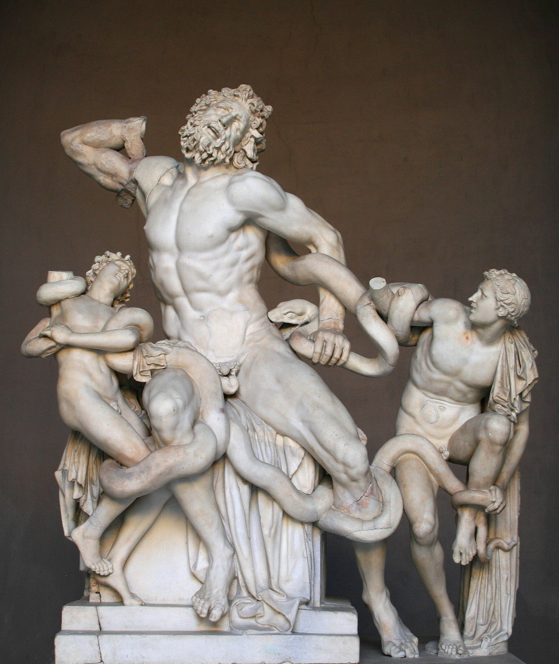 Laocoön and his sons, also known as the Laocoön Group. Marble, copy after an Hellenistic original from ca. 200 BC. Found in the Baths of Trajan, 1506.